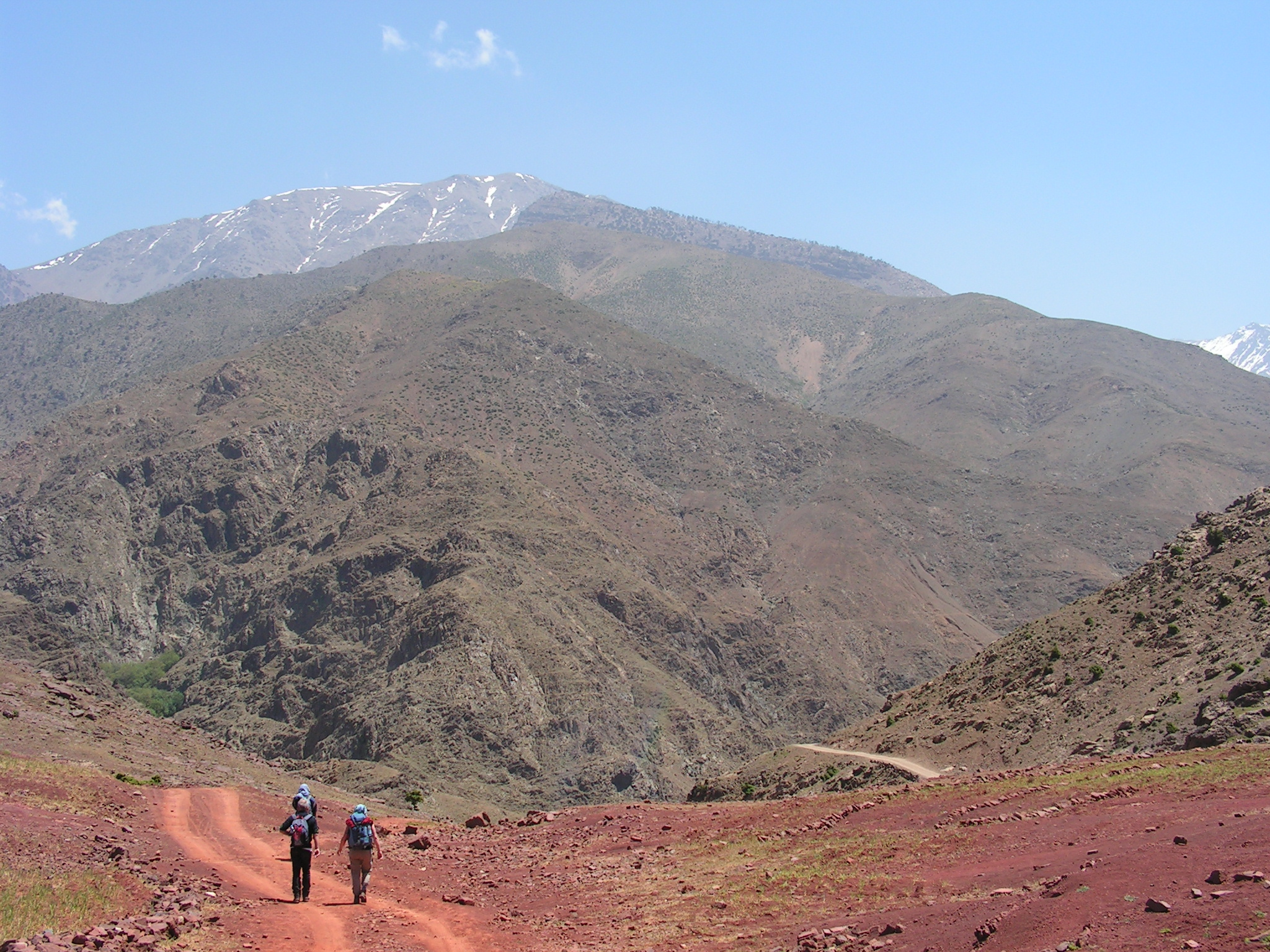 Walkers near Toubkal in the Atlas Mountain (Morocco).